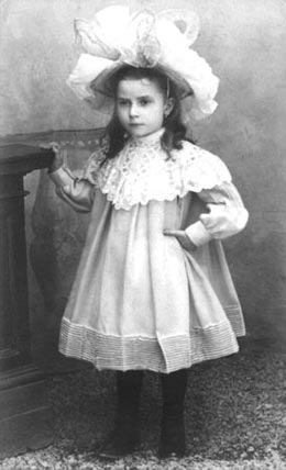 Maria Valtorta, italian religious writer, mystic, at age 5